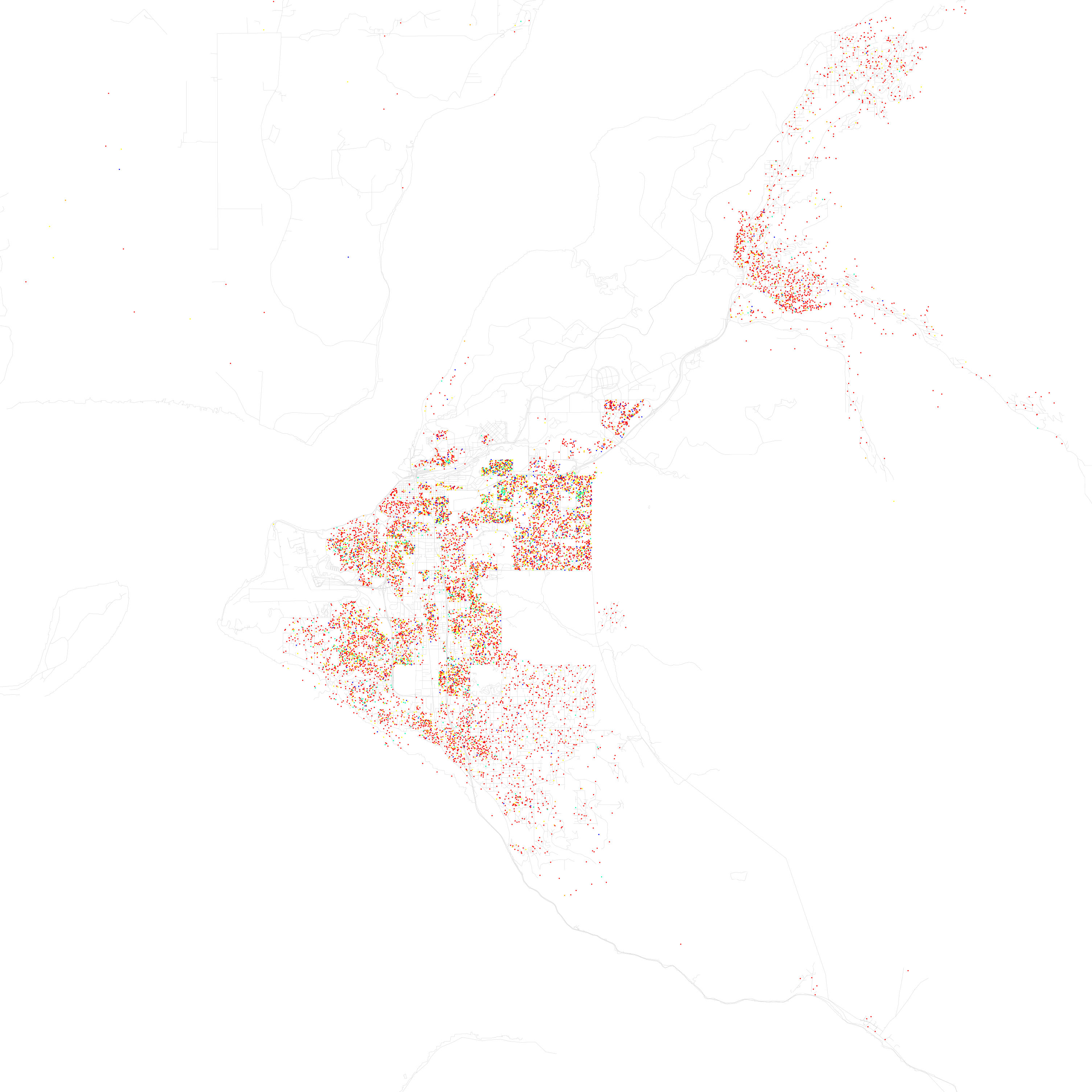 Maps of racial and ethnic divisions in US cities, inspired by Bill Rankin's map of Chicago, updated for Census 2010. Red is White, Blue is Black, Green is Asian, Orange is Hispanic, Yellow is Other, and each dot is 25 residents. Data from Census 2010. Base map © OpenStreetMap, CC-BY-SA